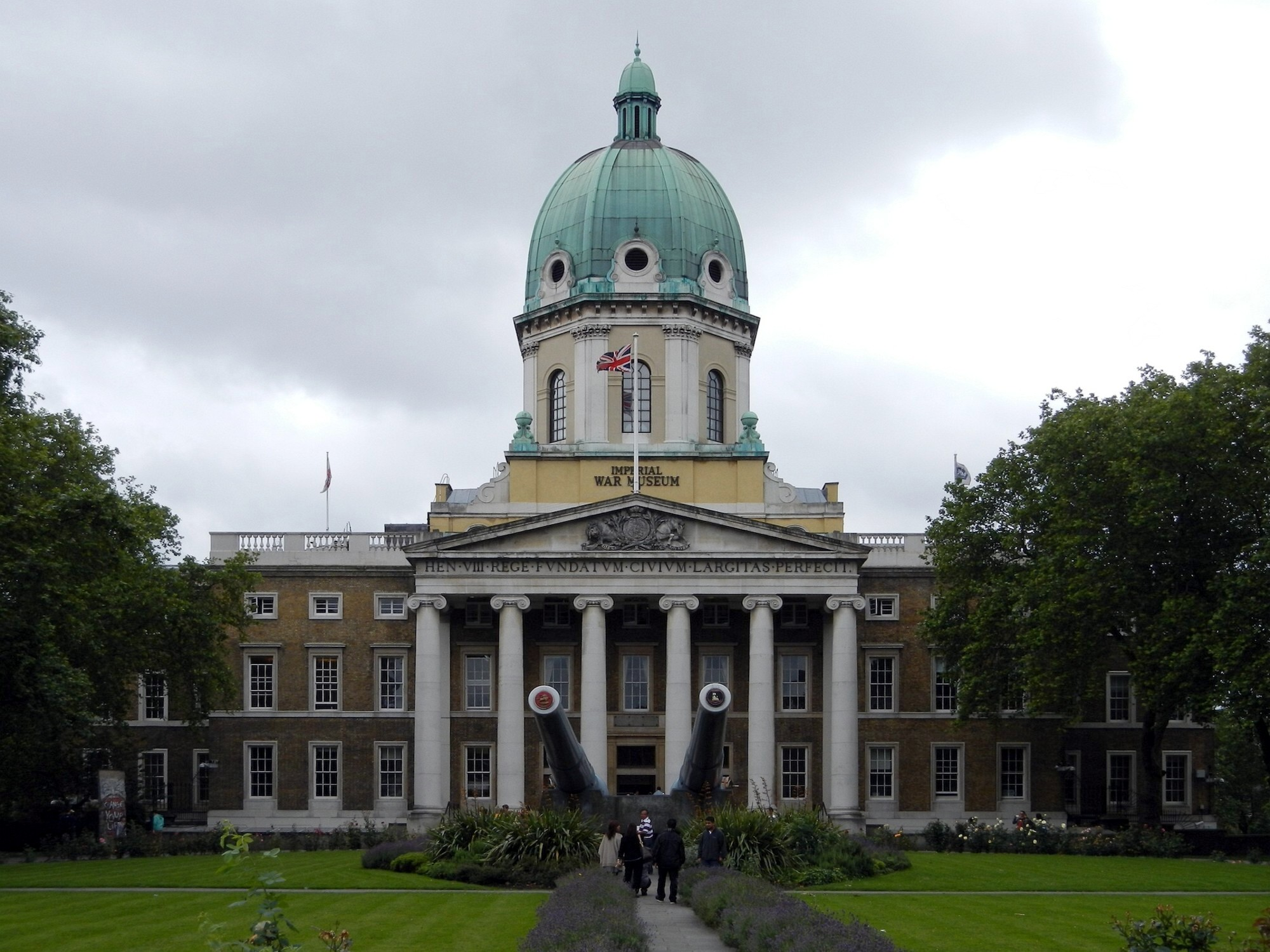 Imperial War Museum, London, UK